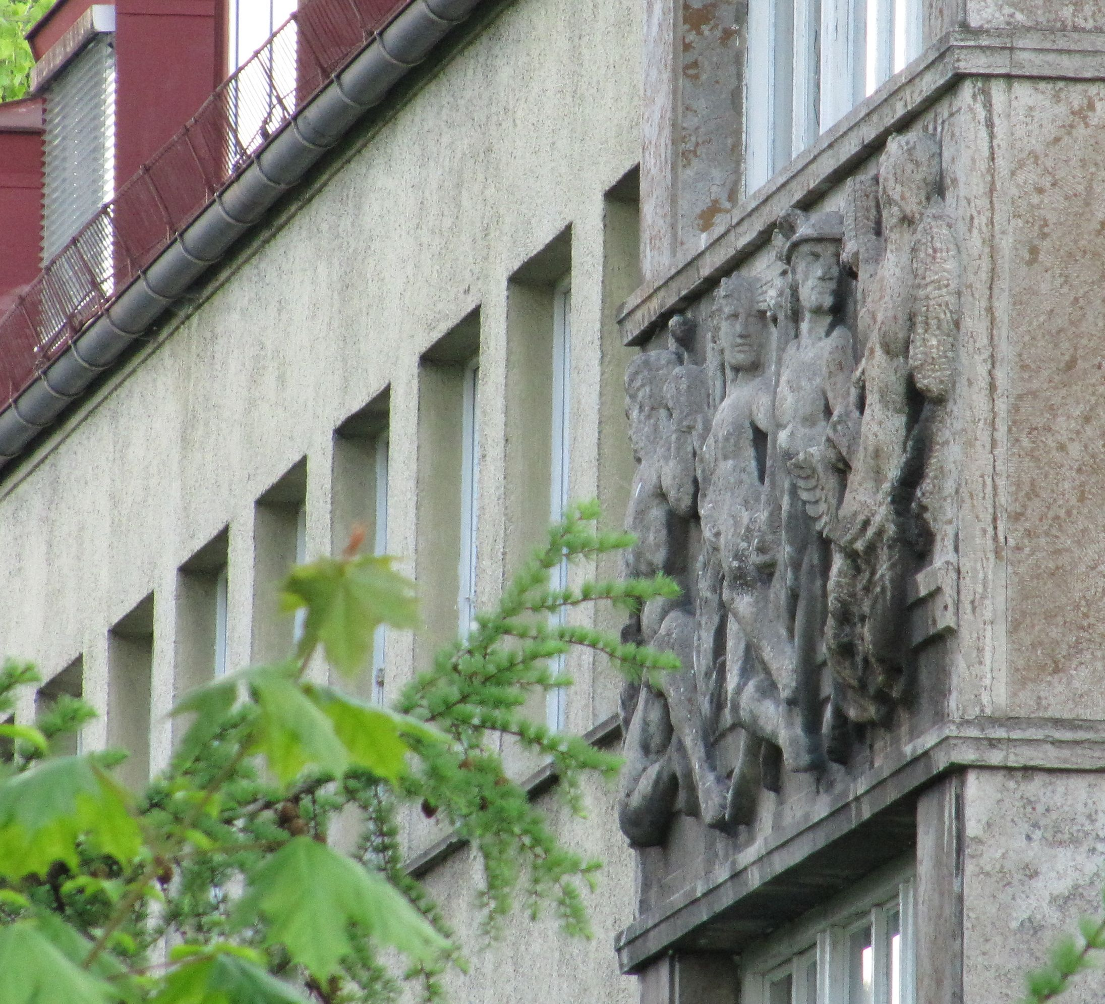 Munich-Aubing: frieze at a building of the Deutsche Bahn at the Aubing-Ost-Straße 66.